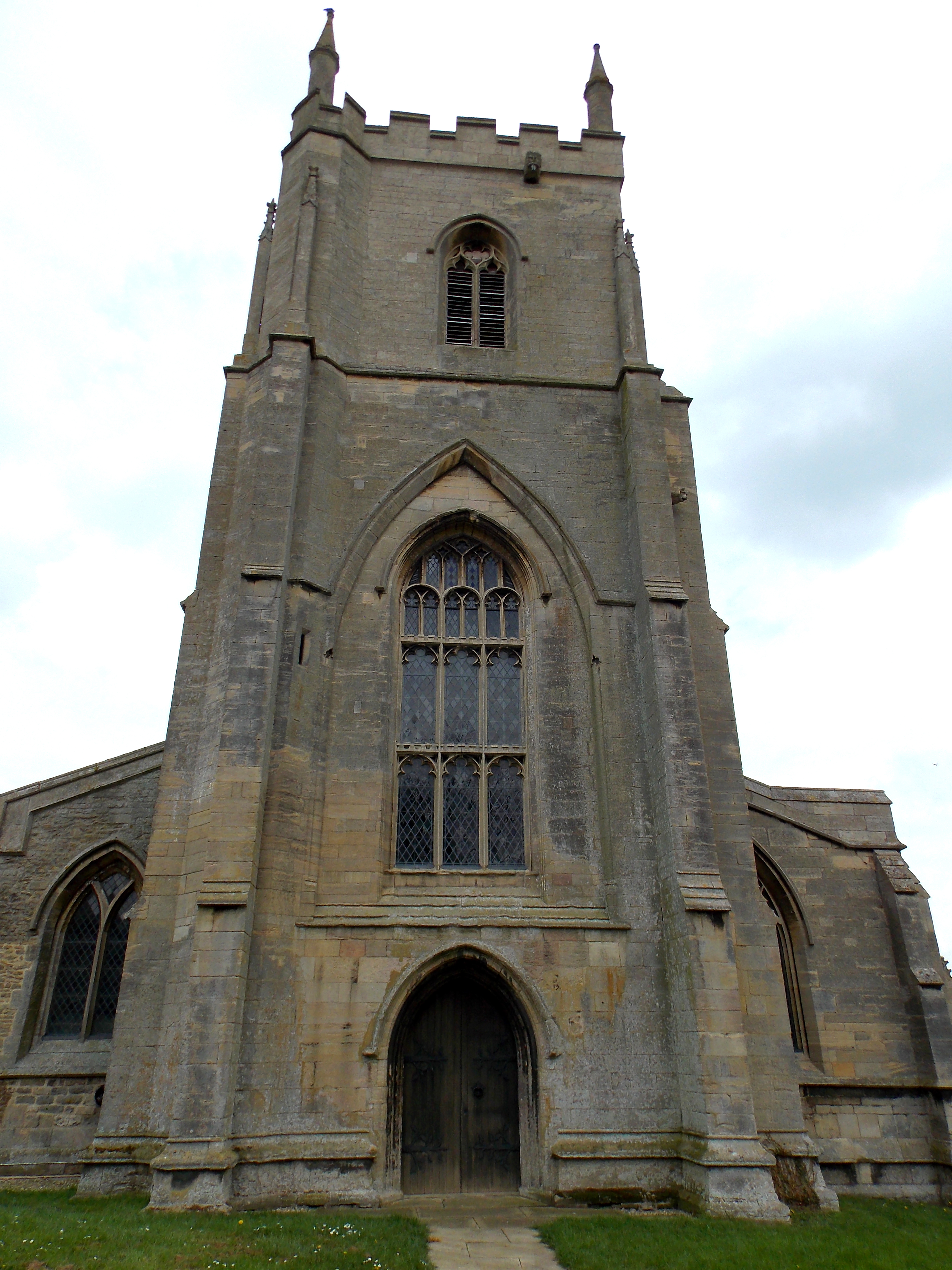 Aslackby St James, exterior- Tower from west